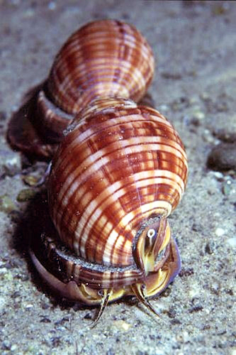 Semicassis granulata undulata from Archi, Reggio Calabria, Italia, Mar Tirreno. Note: Semicassis undulata is/has been sometimes considered as a synonym for Semicassis granulata.